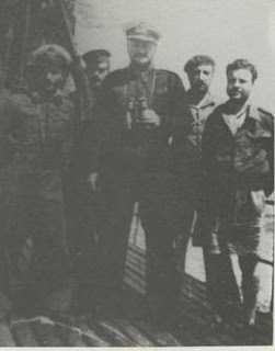 Vasilis Laskos (1899-1943) commander of Greek submarine “Katsonis”. Photo of unknown author, circa 1942.